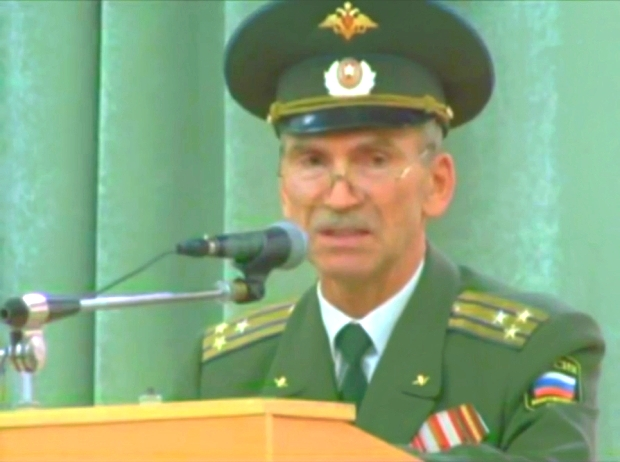 Col. Leonid Khabarov addressing his farewell speech to the young servicemen.